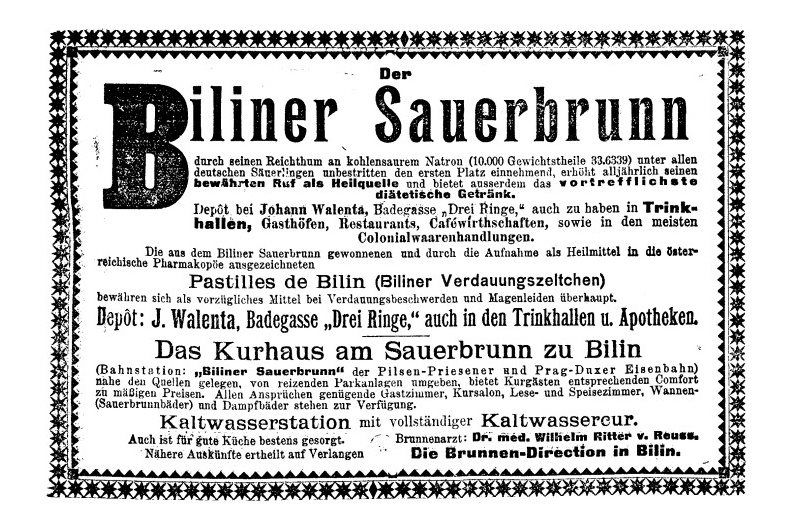 BILINER SAUERBRUNN, newspaper advertising from 1900